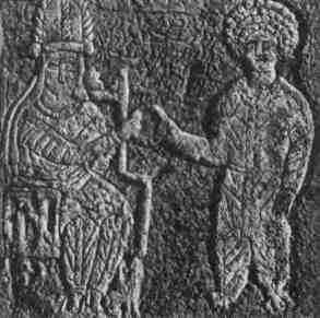 Relief from Susa depicting the Parthian king Artabanus V (IV) (left) and his satrap Khvasak (right)